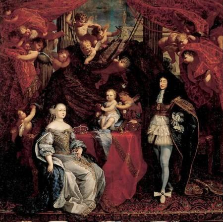 Portrait of Carlo Emanuele II and his wife Maria Giovanna of Savoy and their son Vittorio Amedeo (1666-1732)